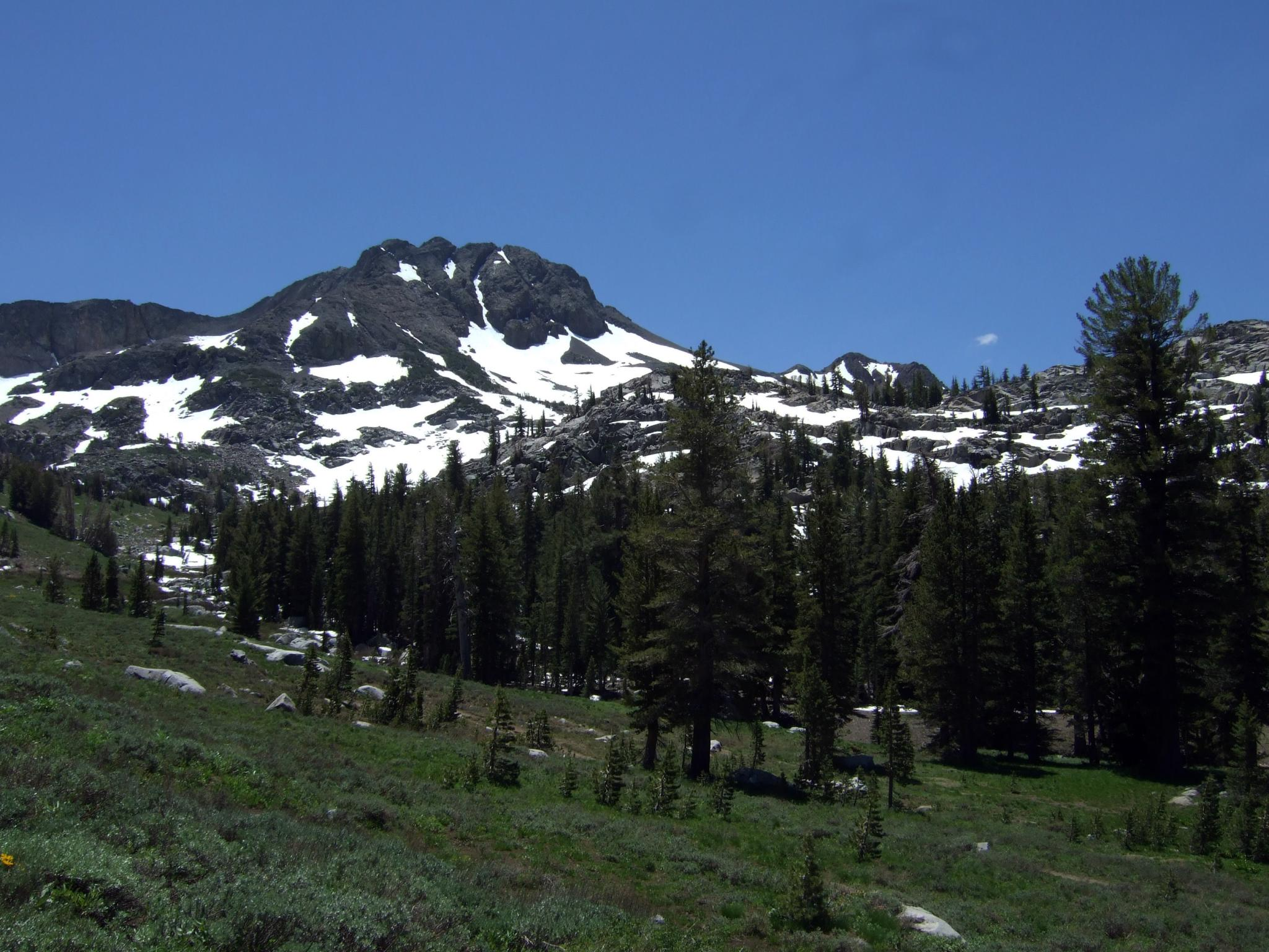 On the trail up to Winnemucca Lake in Eldorado National Forest, California, USA